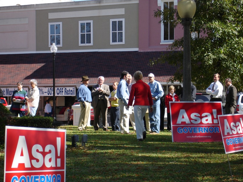 Asa Hutchinson, Republican candidate for Arkansas governor, visited Monticello Monday, October 23, during a campaign bus tour.